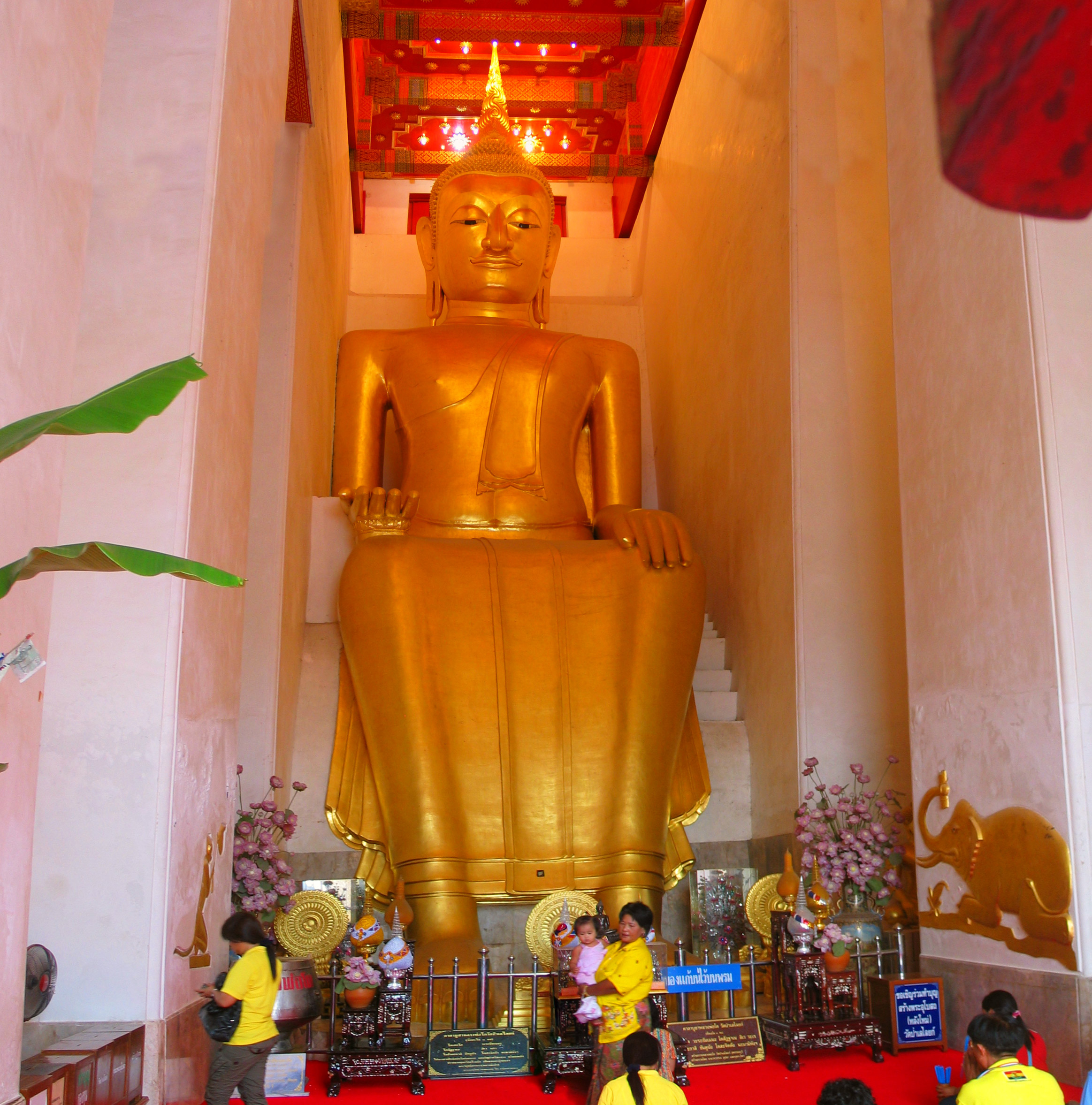 Panorama image (composed of 4 pictures), statue of Luang Pho Tho, Wat Pa Lelai, Suphanburi, Thailand